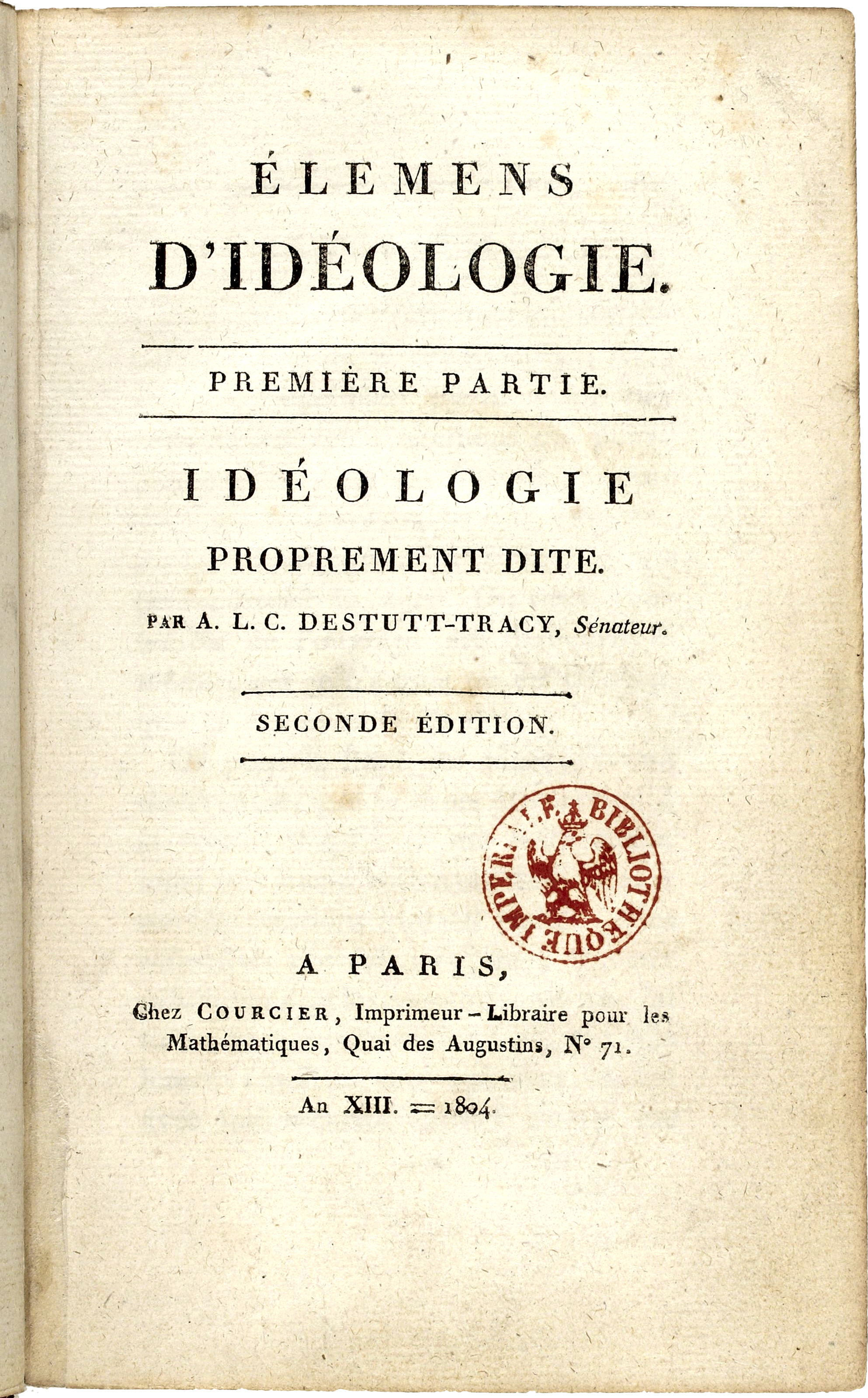 Frontispiece of Destutt de Tracy’s Élémens d'idéologie. Première partie. Idéologie proprement dite.